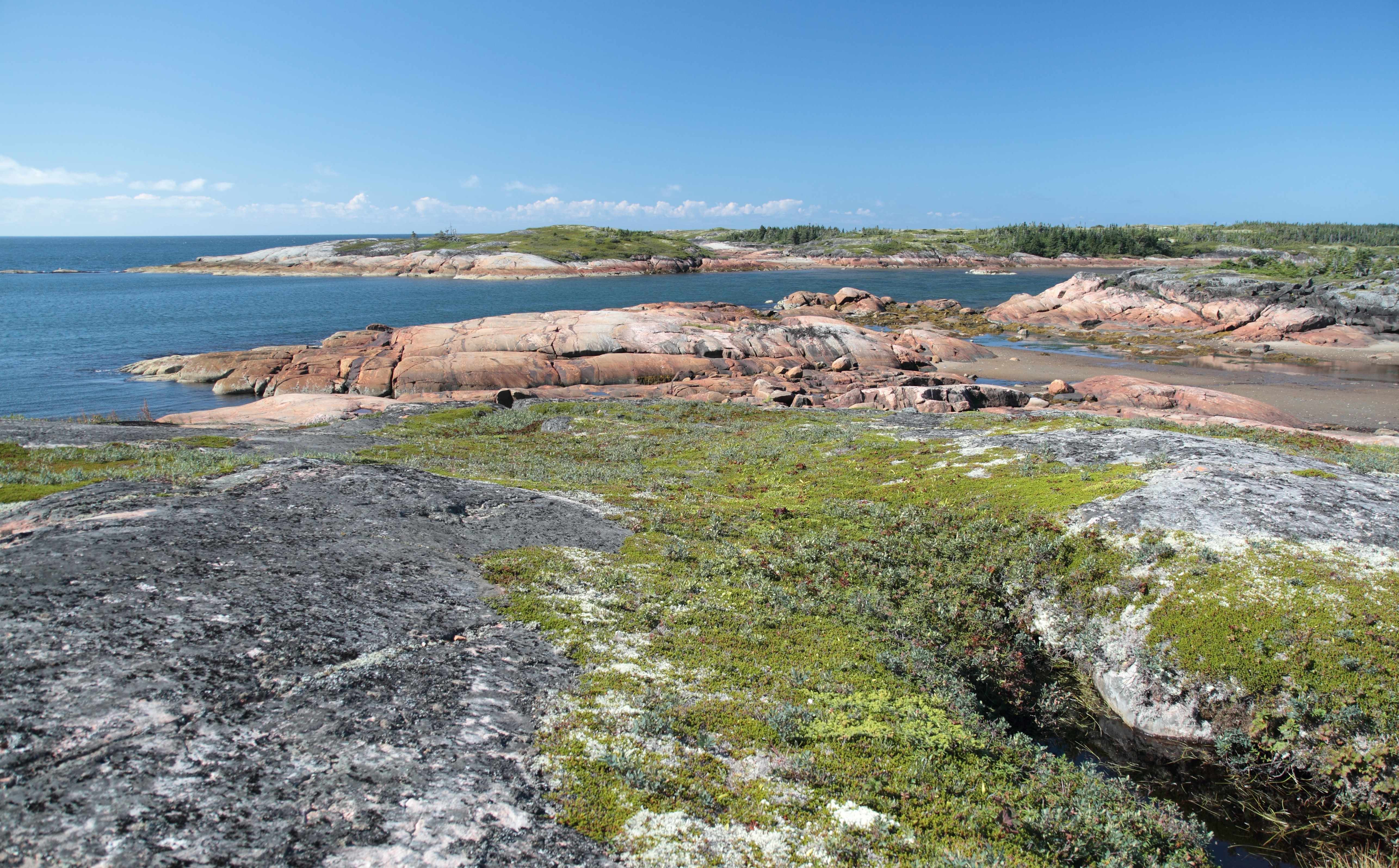 Rocky shore, Aguanish, Quebec, Canada